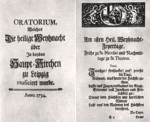 First page of the libretto of the Christmas Oratorio from Johann Sebastian Bach, BWV 248